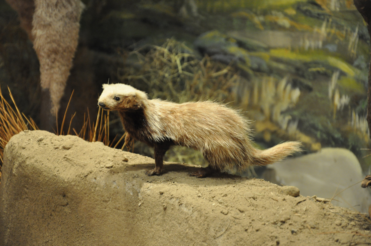 Lyncodon patagonicus - Patagonian Weasel - Museum of Patagonia - San Carlos de Bariloche Argentina